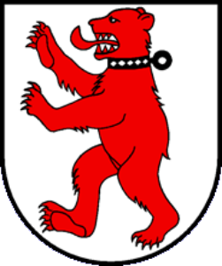 This was the coat of arms of the municipality of Basadingen until its merger with Schlattingen in 1999. Between 1999 and 2012 the merged municipality Basadingen-Schlattingen also used this coat of arms.